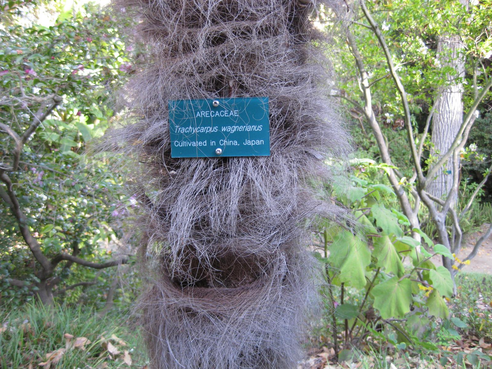 Trachycarpus fortunei (syn. T. wagnerianus) Photographed at Mildred E. Mathias Botanical Garden at UCLA, Westwood, (Los Angeles, California) - in November.